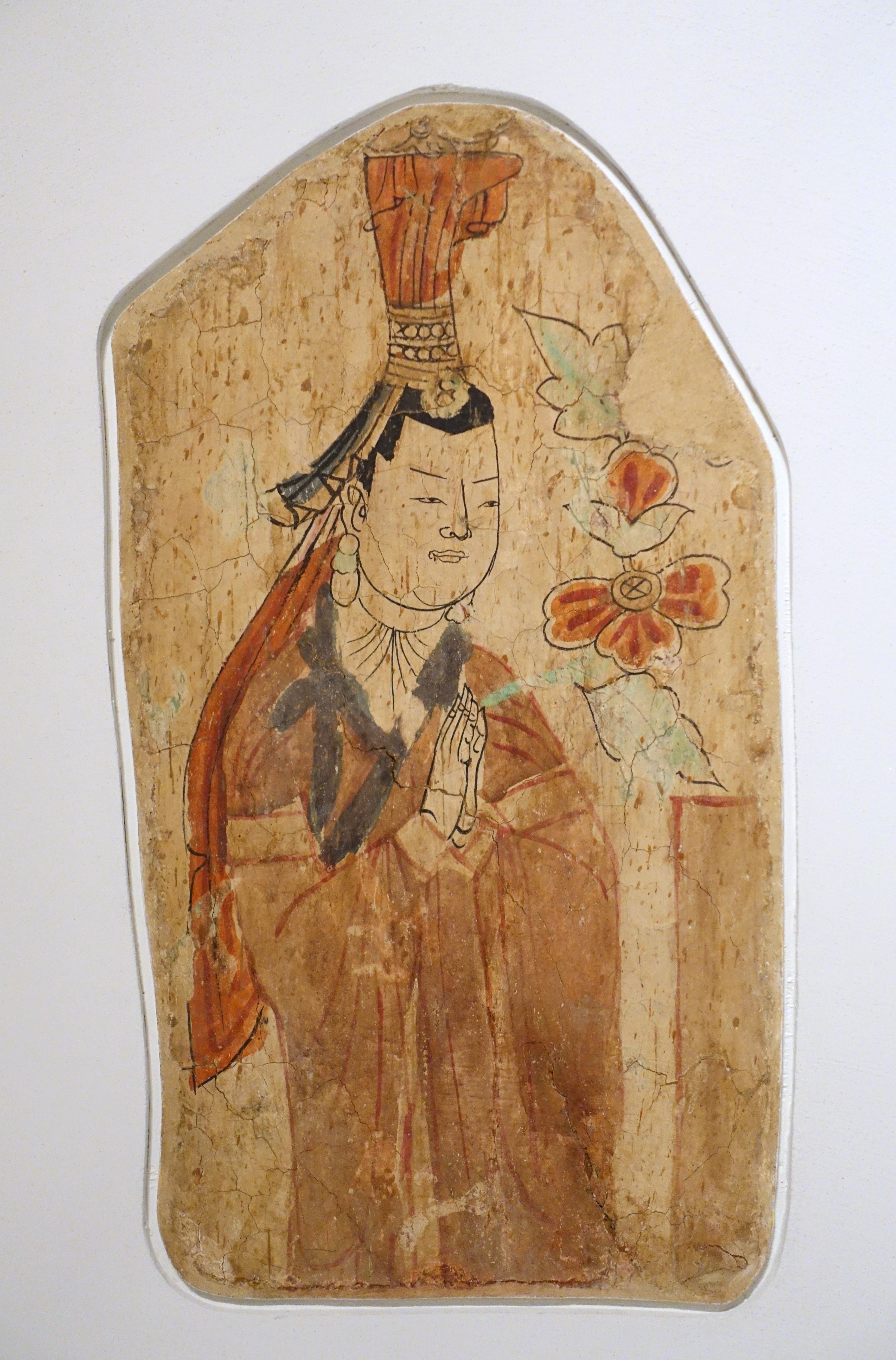 Exhibit in the Ethnological Museum, Berlin, Germany.